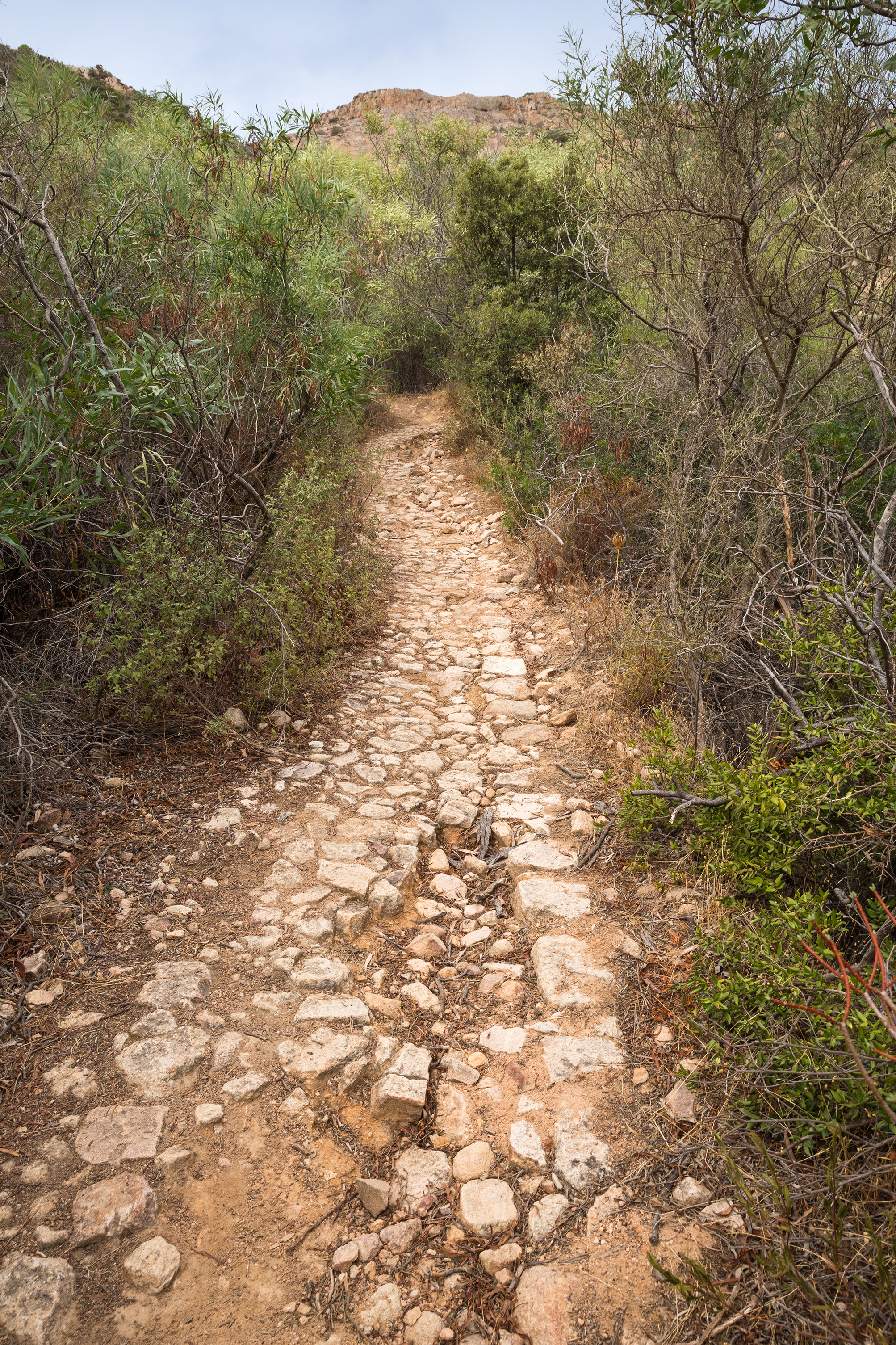 Ancient Roman street in Sardinia